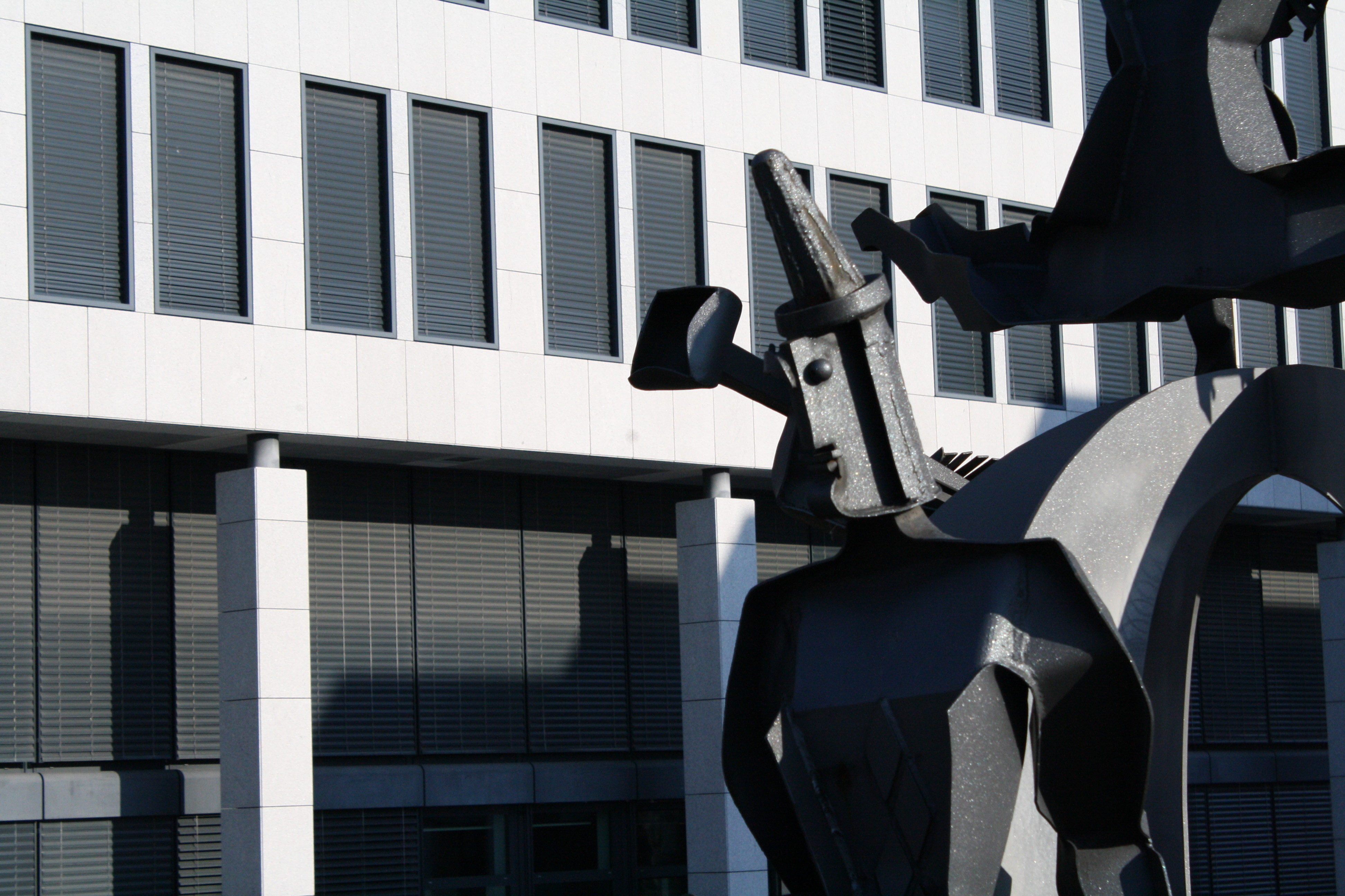 Renens, Vaud, Switzerland